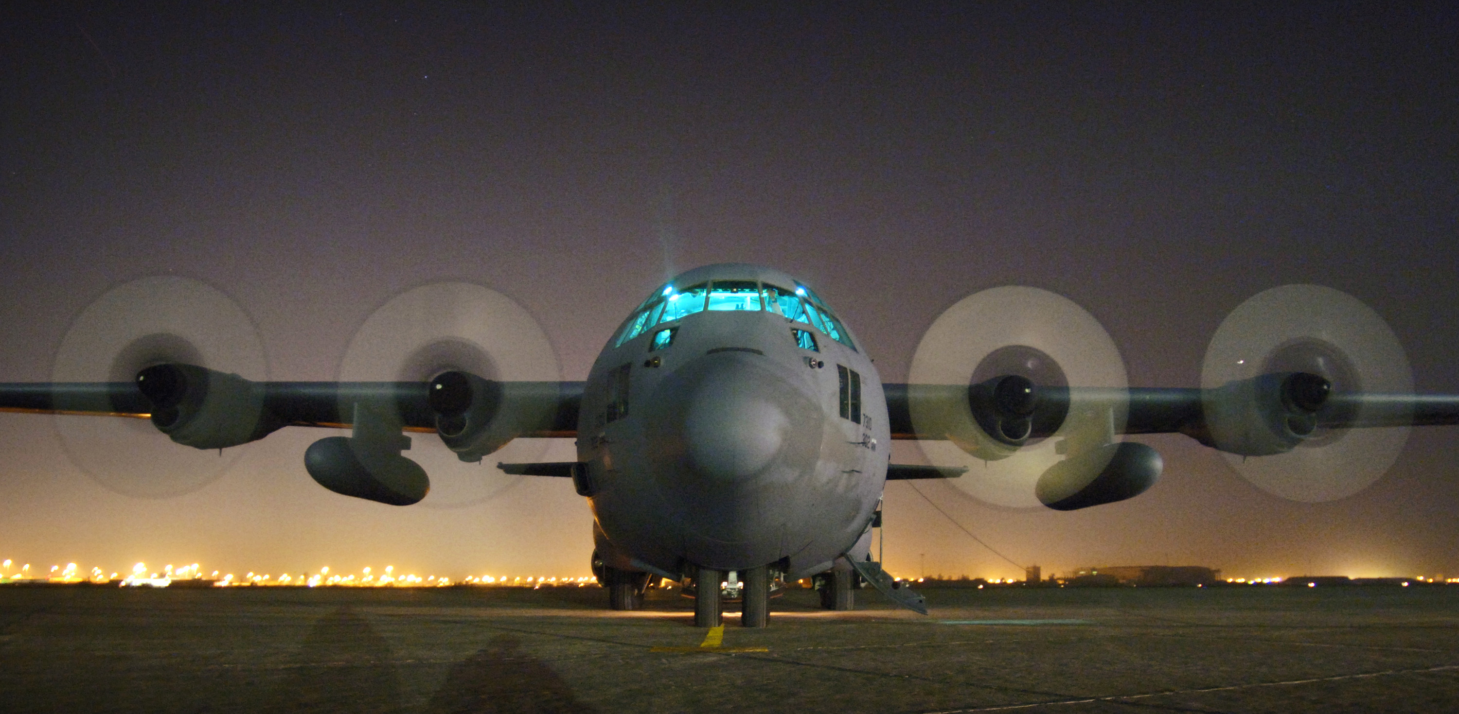 An Air Force Reserve C-130 Hercules is readied for takeoff at Sather Air Base, Iraq, on Wednesday, April 19, 2006. The aircraft is from the 302nd Airlift Wing at Peterson Air Force Base, Colo. (U.S. Air Force photo/Master Sgt. Lance Cheung)